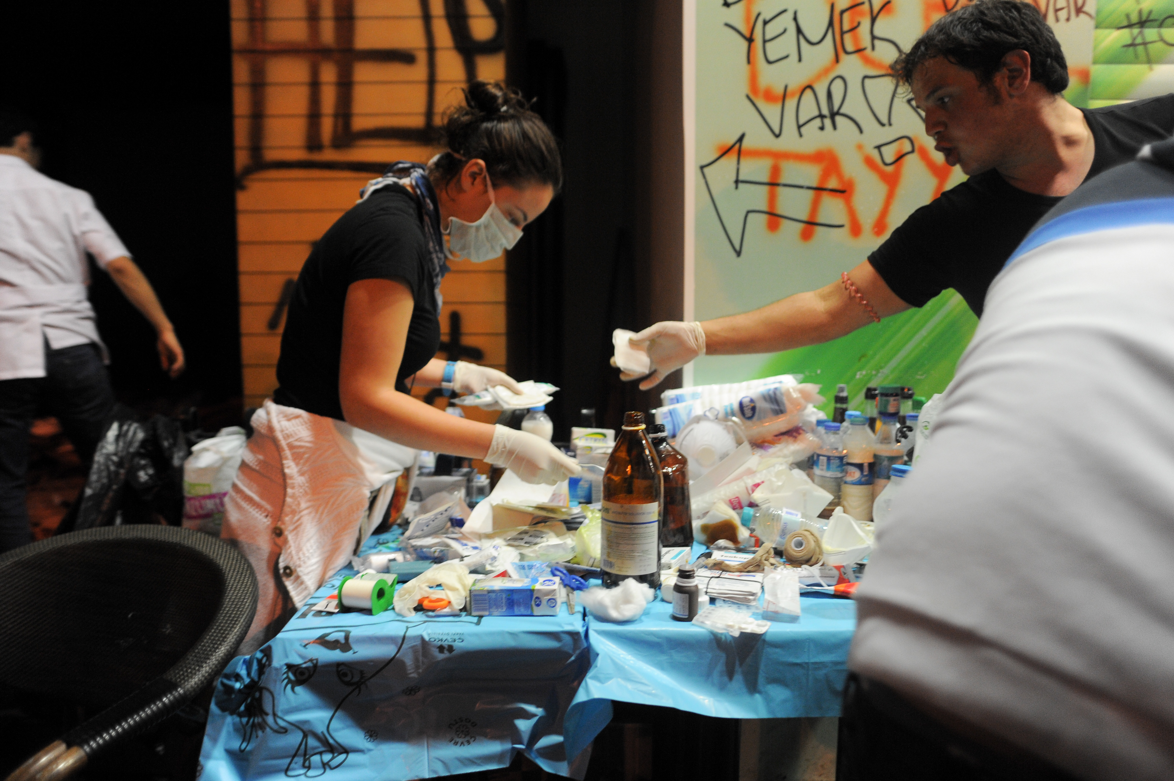 Taksim square volunteer medical help. Events of June 3, 2013.